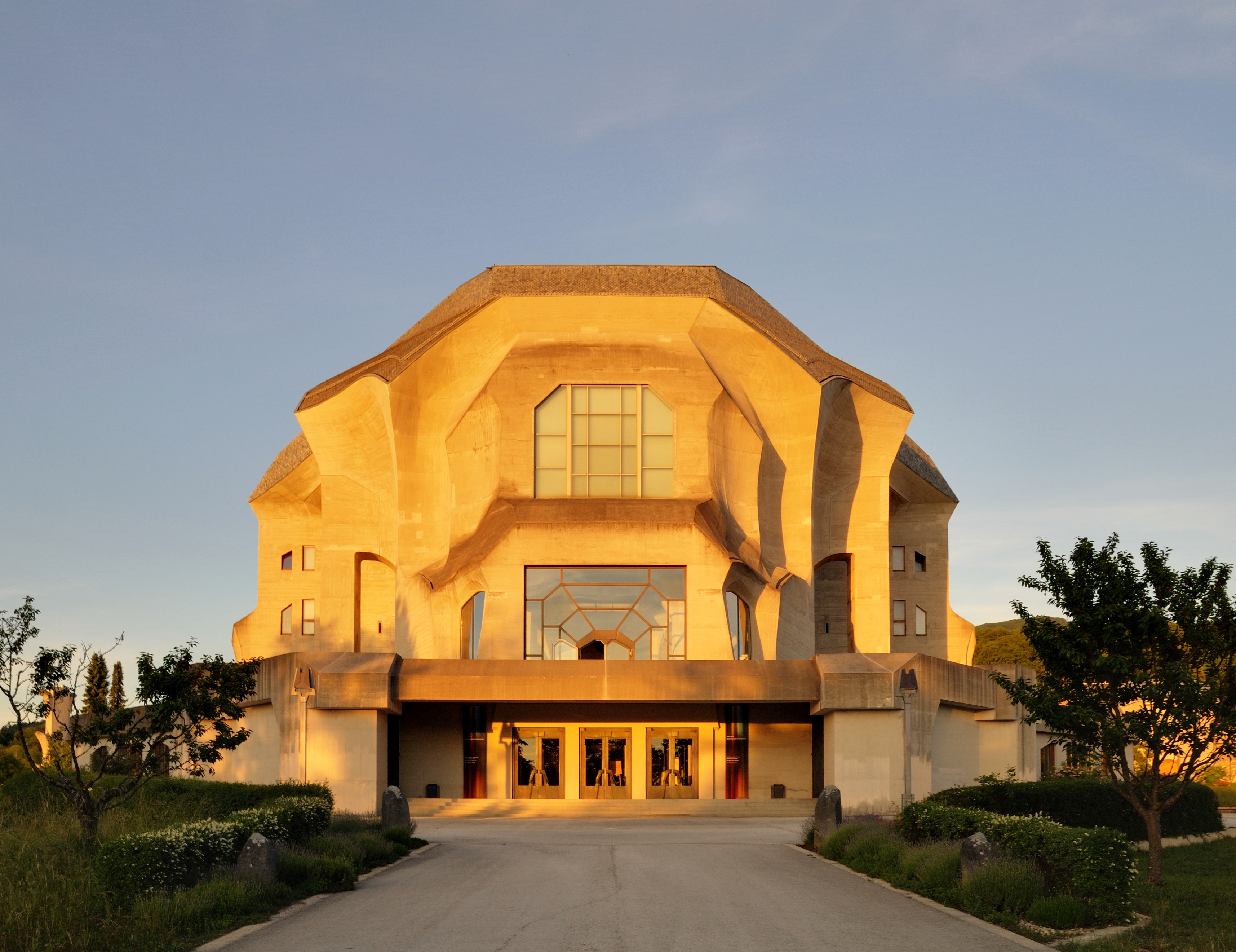 Dornach, Switzland: Goetheanum from west